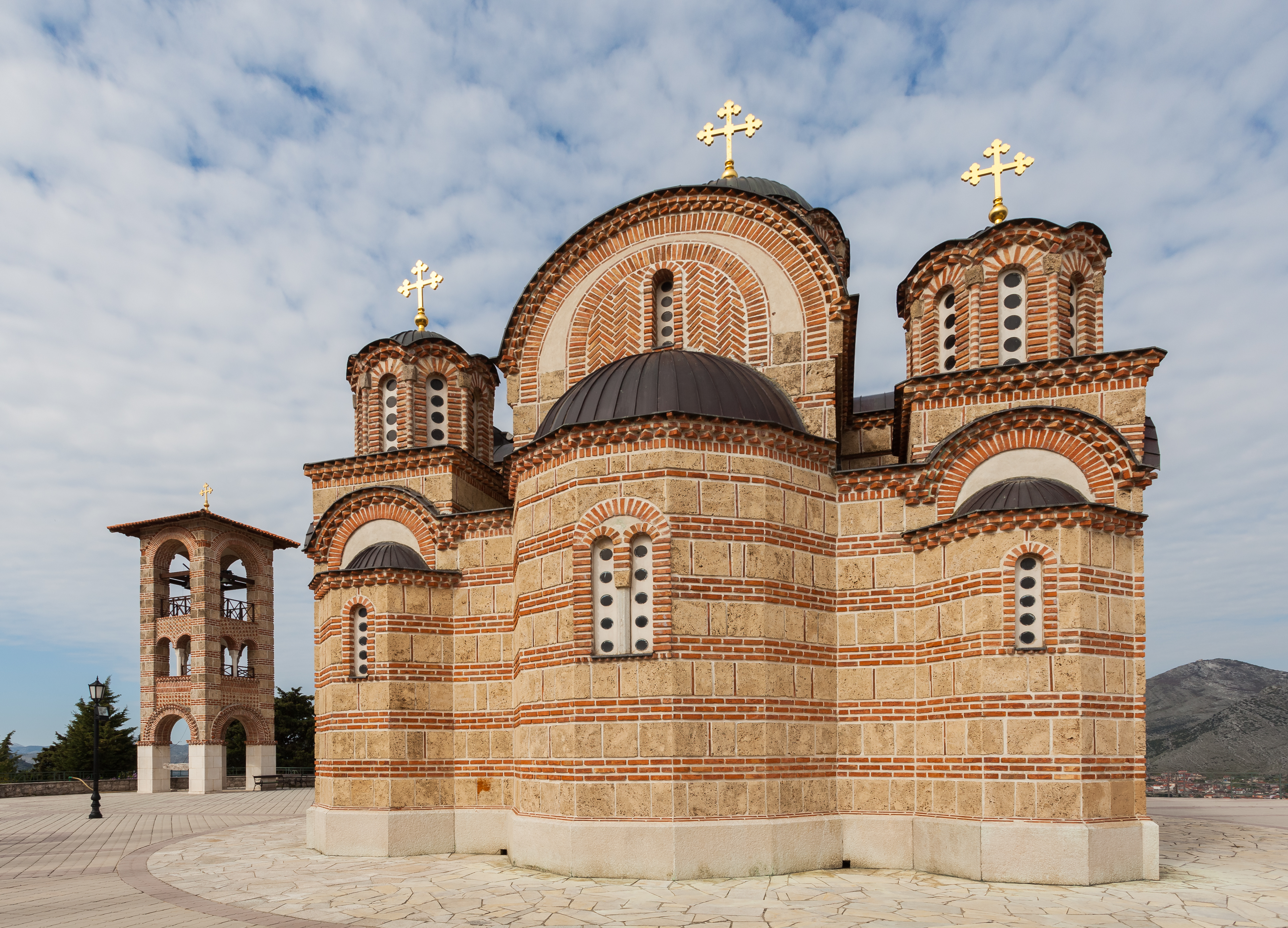 Nova Gracanica church, Trebinje, Bosnia and Herzegovina